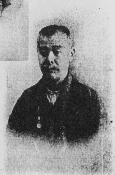 Mr. Susumu Samejima (circa 1905).